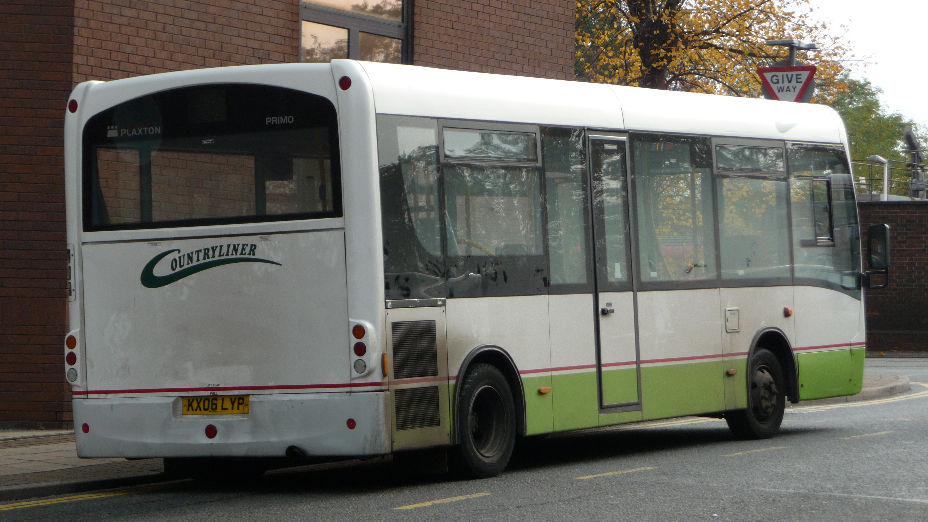 The rear of Countryliner PP1 (KX06 LYP), a Plaxton Primo, in the bus stand in Duke Street, Woking, Surrey, laying over between duties. This bus has now left the fleet, it arrived with Eastonways in Ramsgate by February 2010. Note the replacement rear bumper which is the wrong colour.